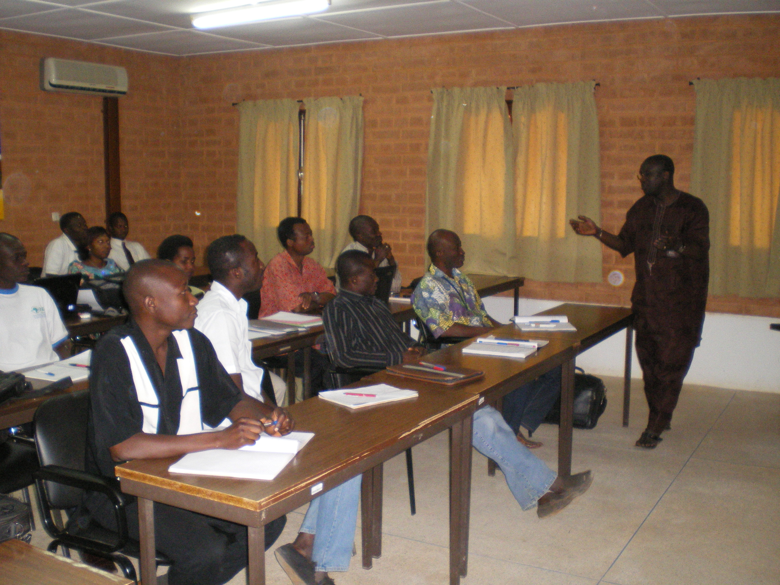 University of Ouagadougou, Master students were interested in ecosan , 2010